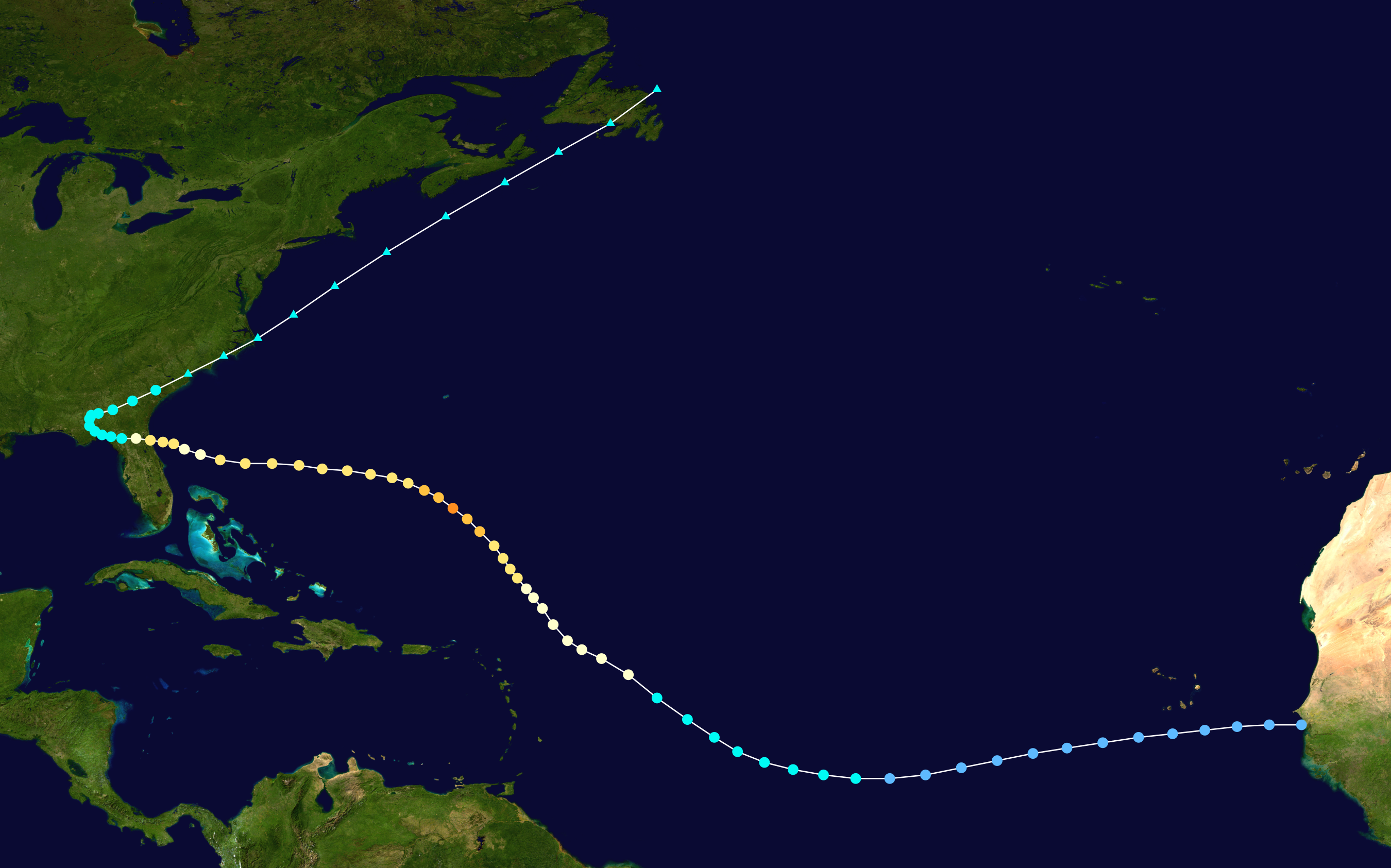 Track map of Hurricane Dora of the 1964 Atlantic hurricane season. The points show the location of the storm at 6-hour intervals. The colour represents the storm's maximum sustained wind speeds as classified in the Saffir–Simpson scale (see below), and the shape of the data points represent the nature of the storm, according to the legend below. Saffir–Simpson scale Tropical depression≤38 mph≤62 km/h Category 3111–129 mph178–208 km/h Tropical storm39–73 mph63–118 km/h Category 4130–156 mph209–251 km/h Category 174–95 mph119–153 km/h Category 5≥157 mph≥252 km/h Category 296–110 mph154–177 km/h Unknown Storm type Tropical cyclone Subtropical cyclone Extratropical cyclone / Remnant low / Tropical disturbance / Monsoon depression